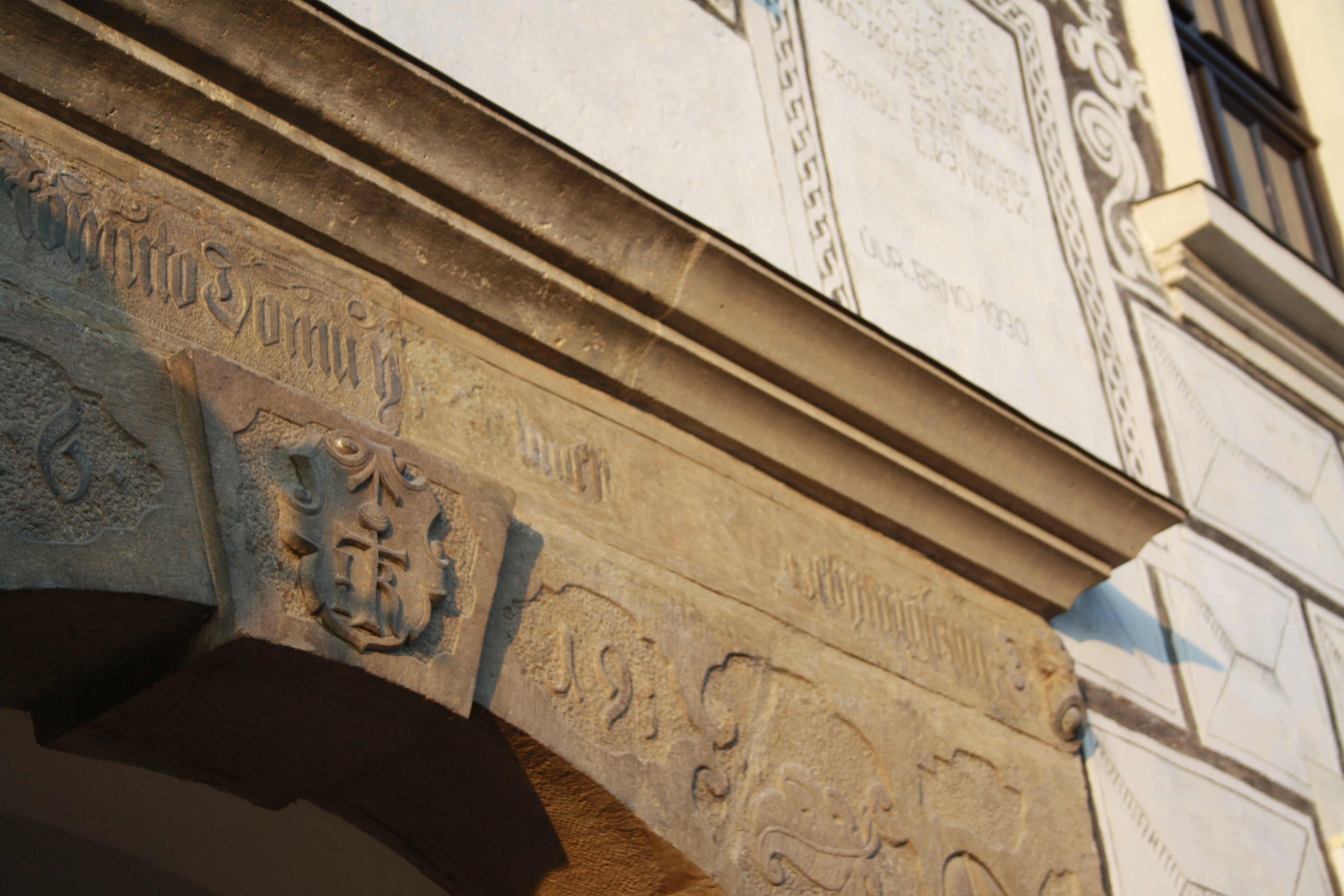 Detail of portal of Černý dům in Třebíč, Czech Republic.